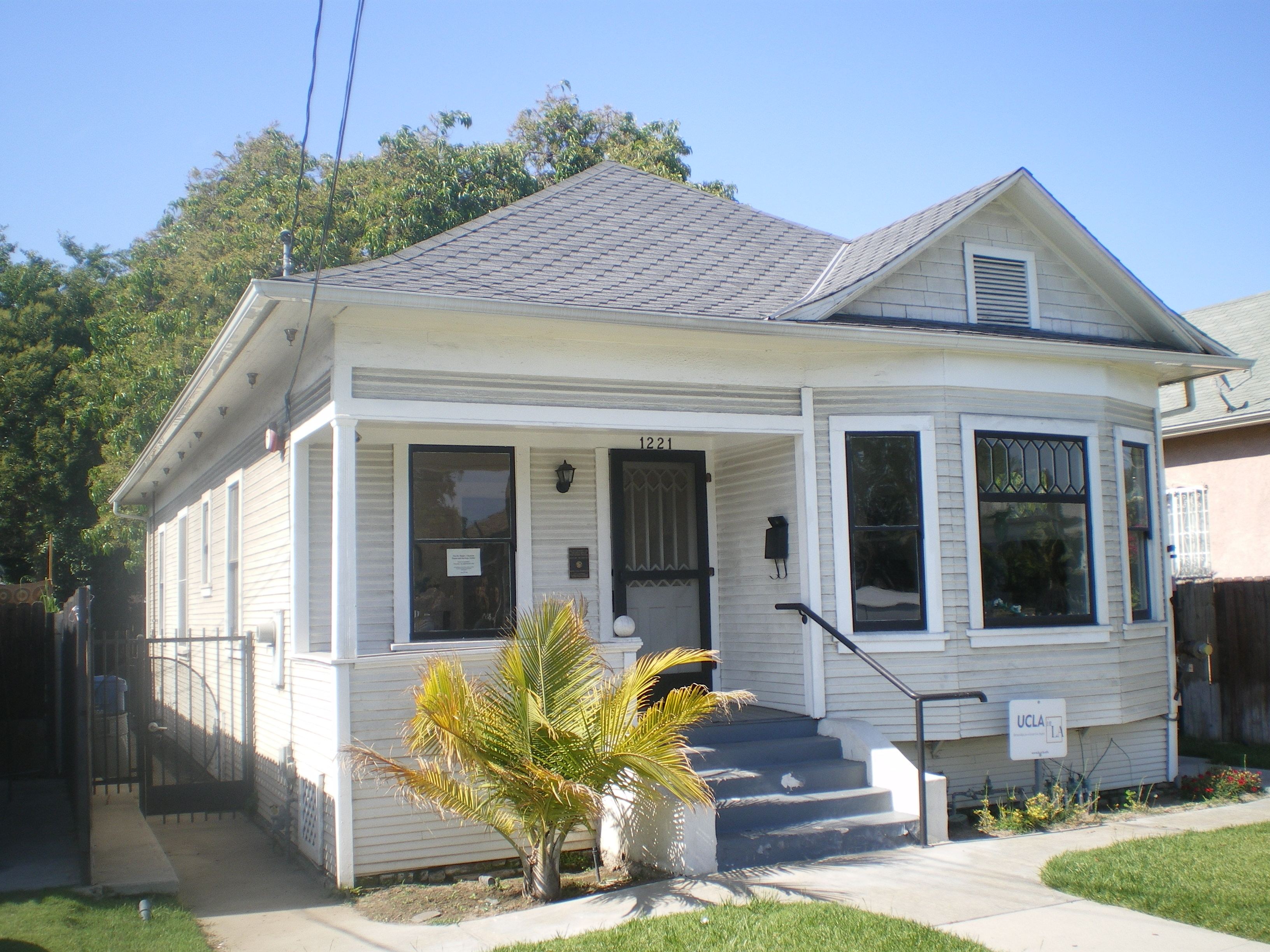 Ralph J. Bunche House — 1221 E. 40th Place, South Los Angeles, California. 1908 Victorian bungalow was the boyhood (adolescent) home of Nobel Peace Prize winner Ralph Bunche (1904-1971). Now housing the Ralph Bunche Peace & Heritage Center — an interpretive museum and community center to promote peaceful interaction of all groups within South Central Los Angeles. A Los Angeles Historic-Cultural Monument, and on the National Register of Historic Places in Los Angeles.